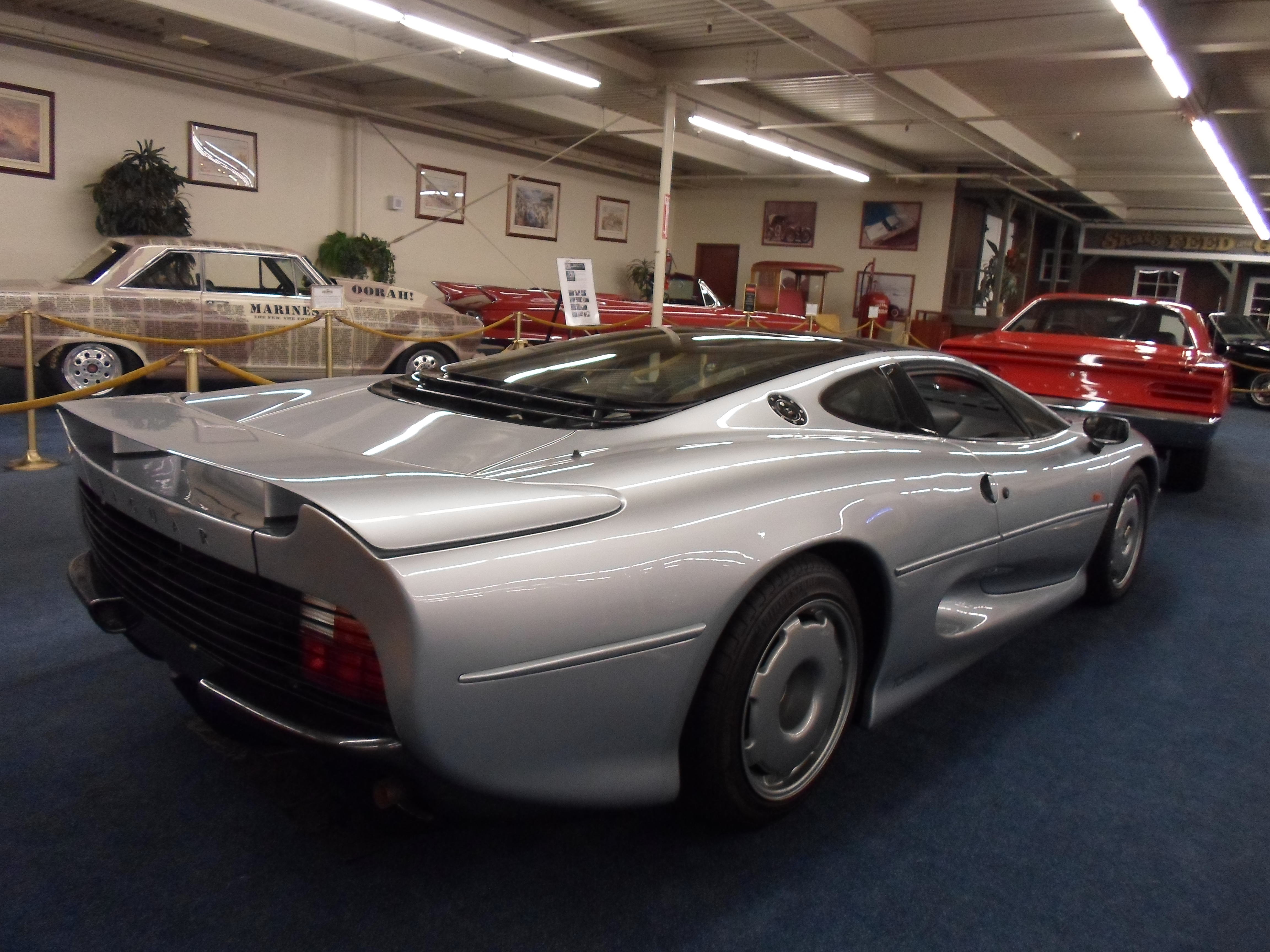 Only 735 miles on this 1994 Jaguar XJ220.